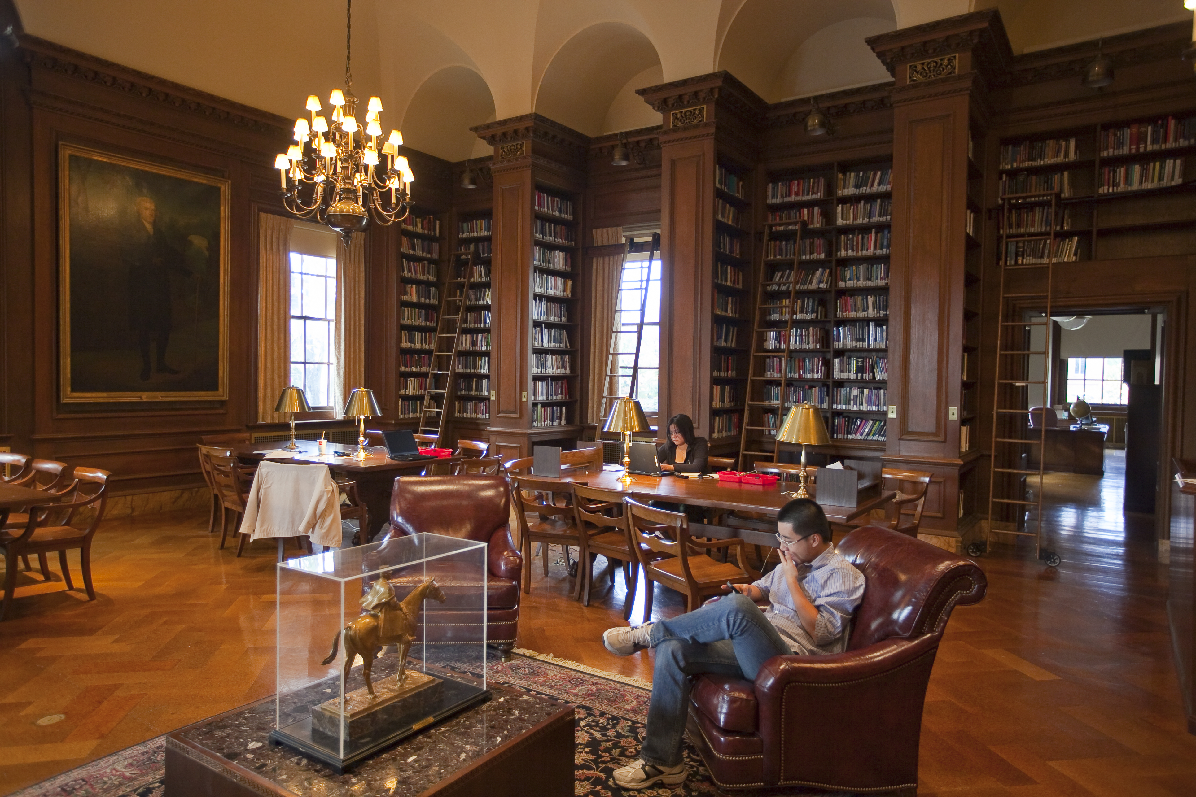 Students study in the quiet space of Kirby Hall of Civil Right's library.